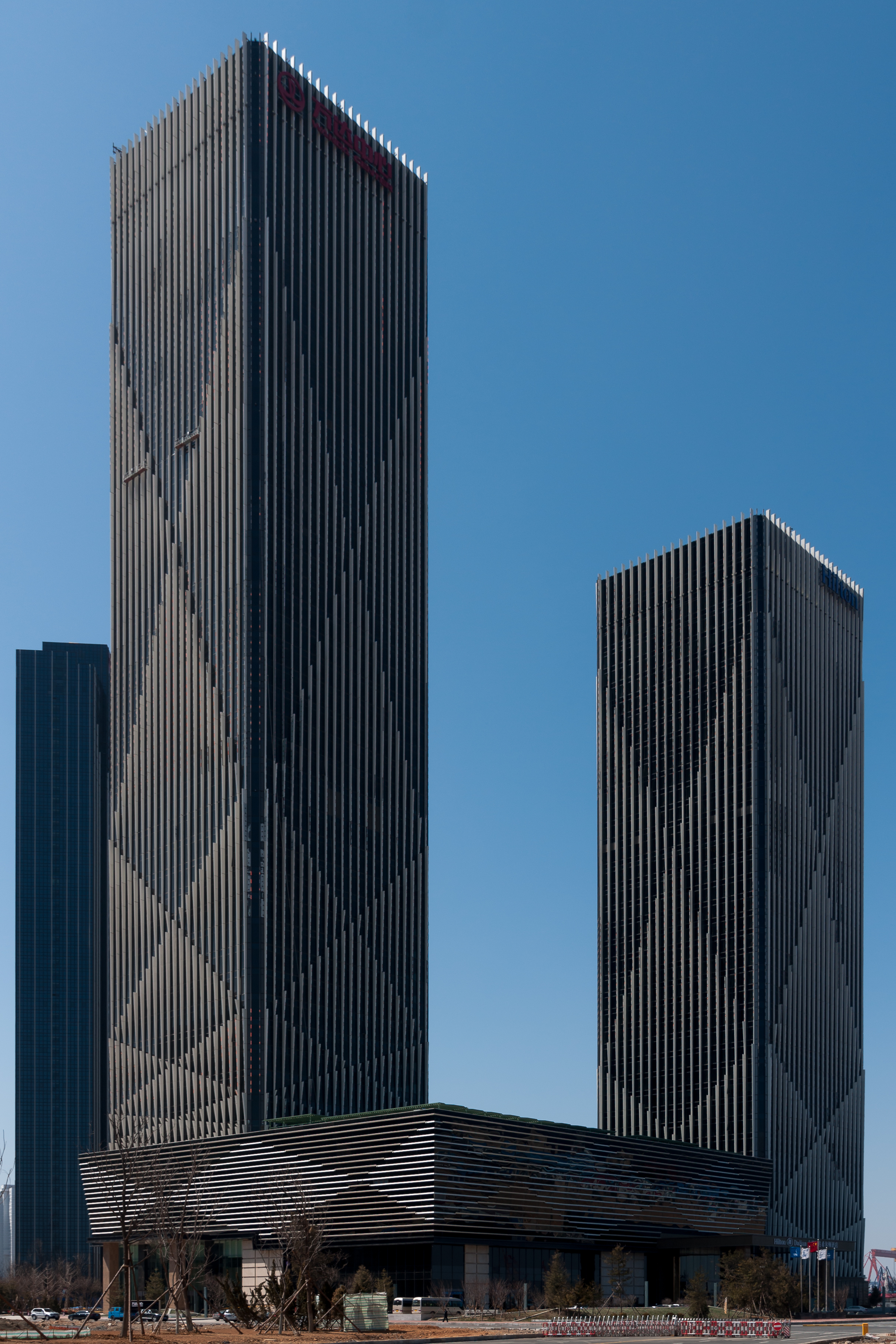 Dalian, Liaoning, China: Wanda Center with Hilton Hotel (next to Dalian Convention Center). Architect: Masters Architectural Office